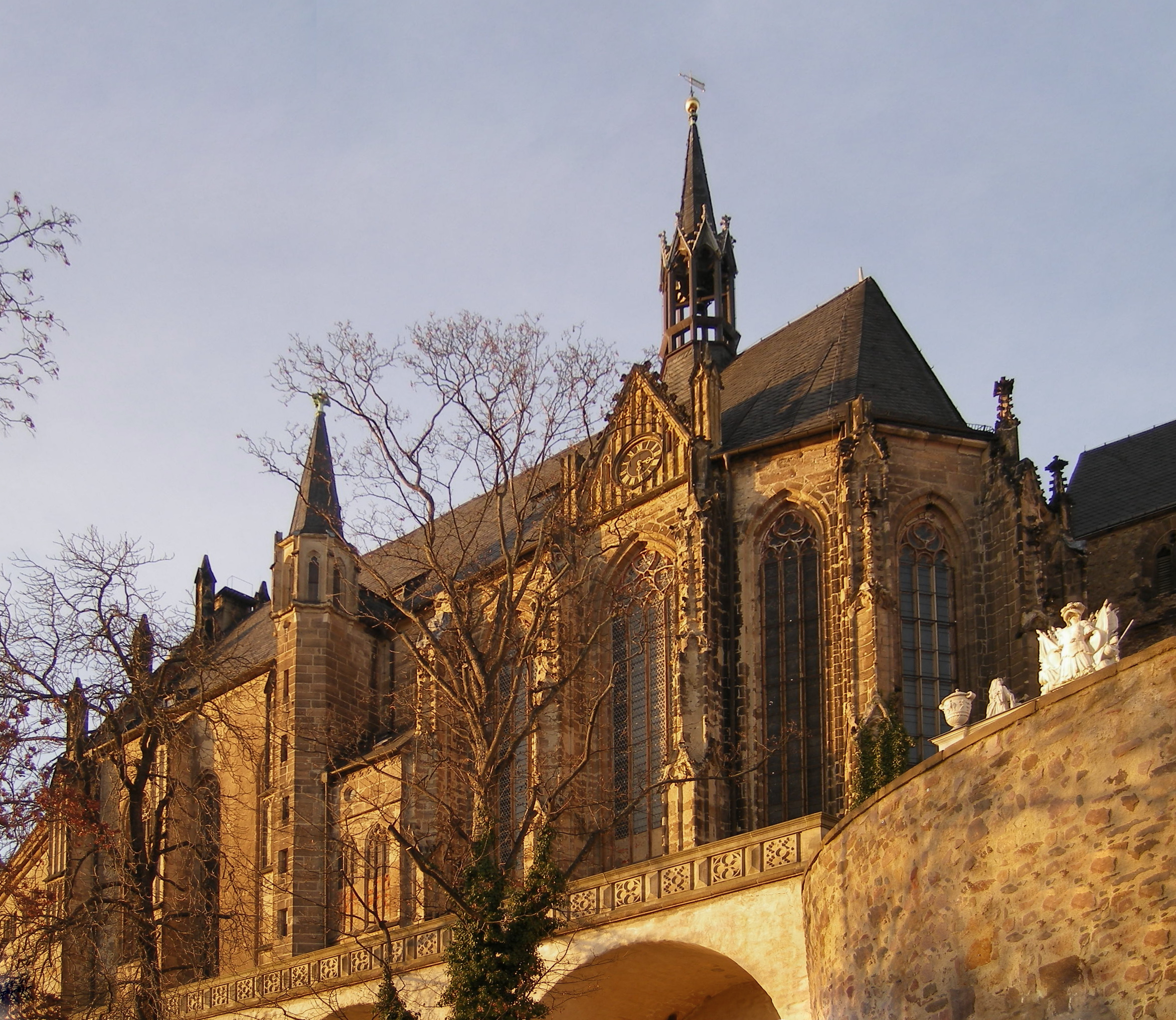 Castle church in Altenburg/Thuringia